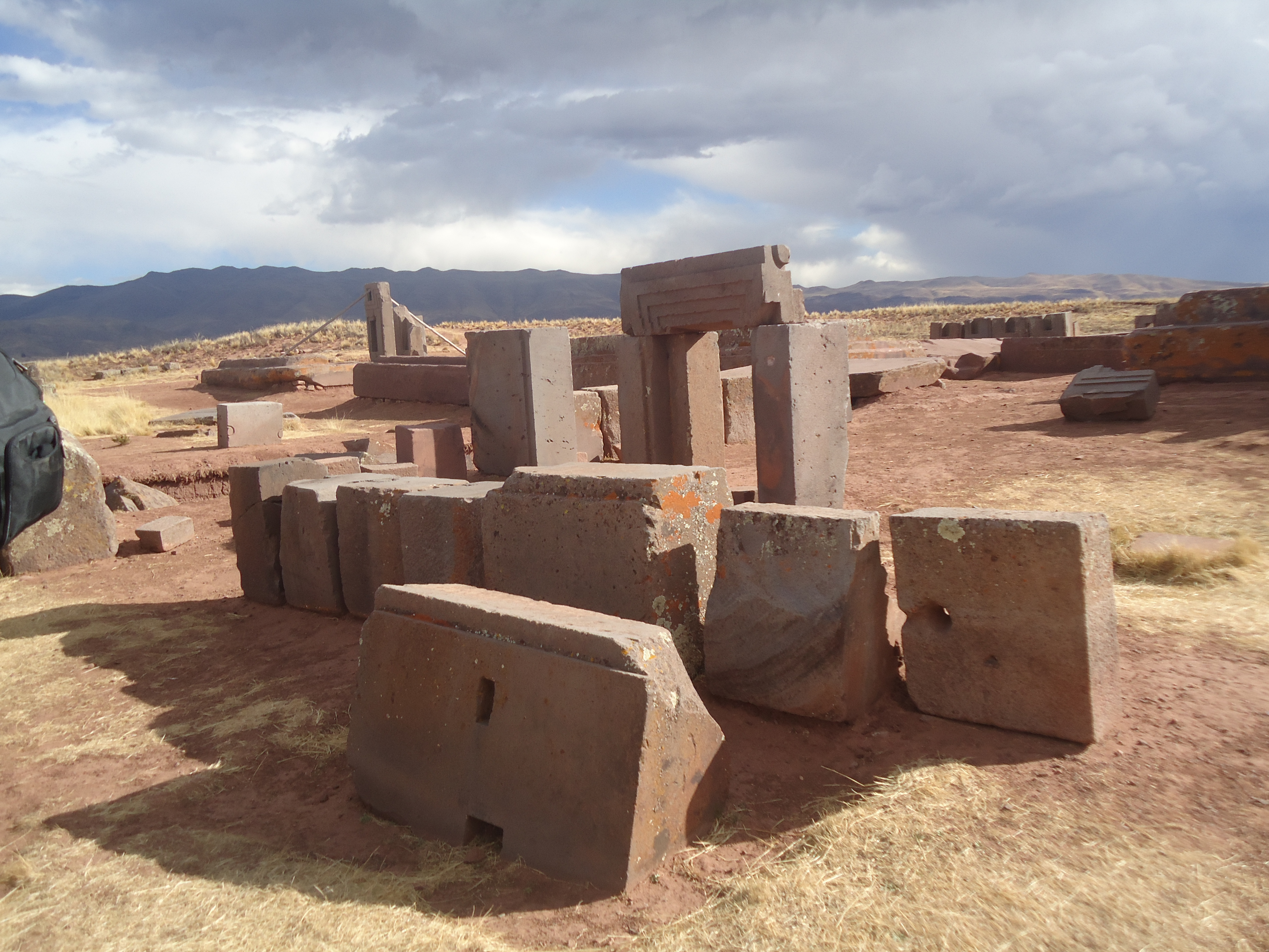 Pile of rocks